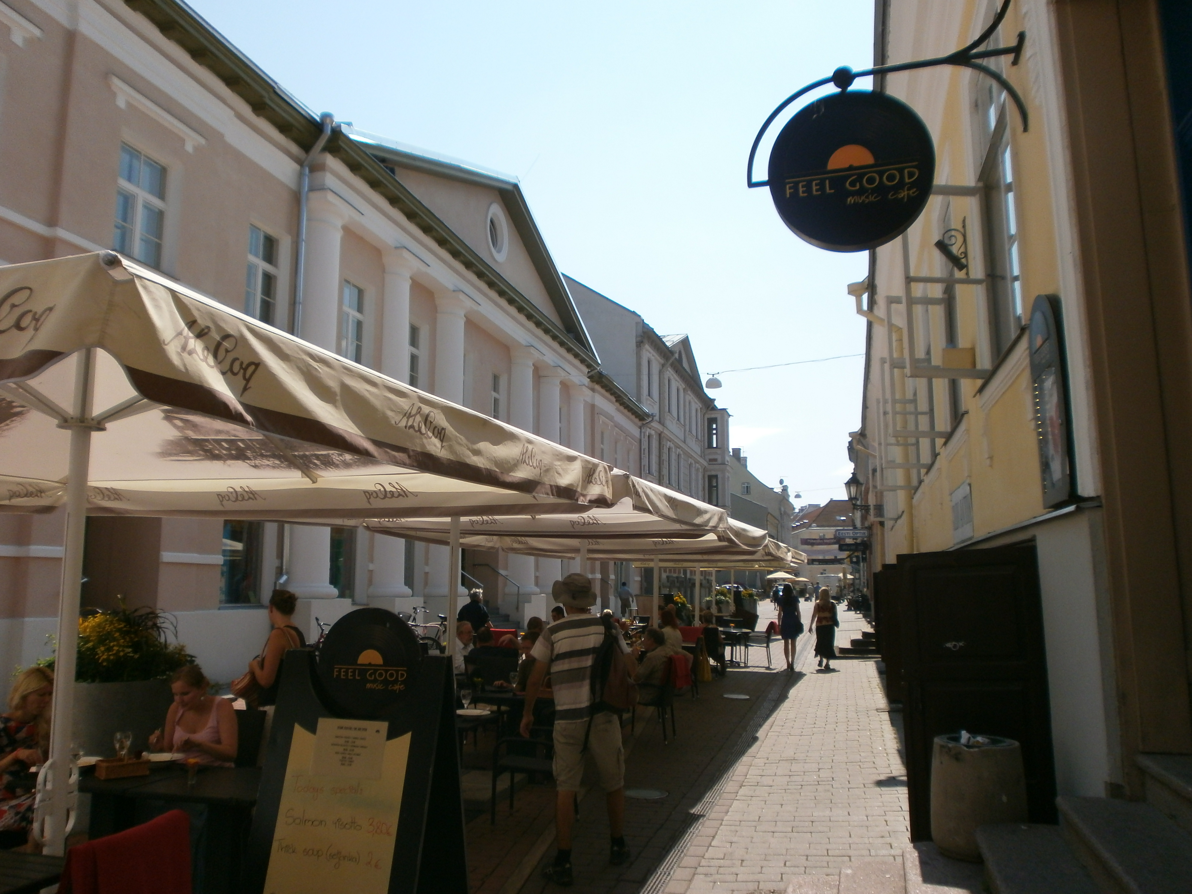 Tartu old town